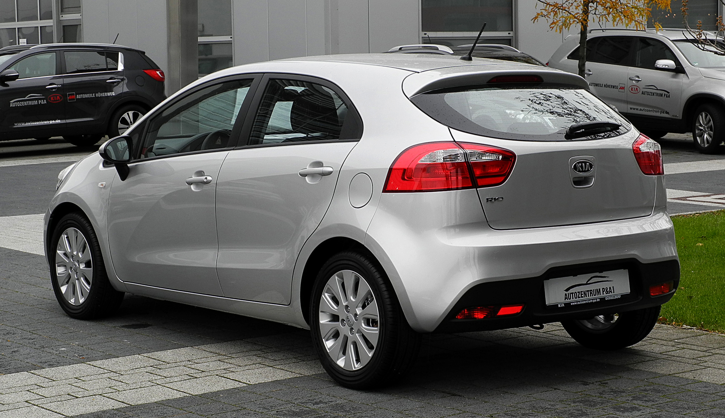 Kia Rio 1.4 CVVT Edition 7 (UB)